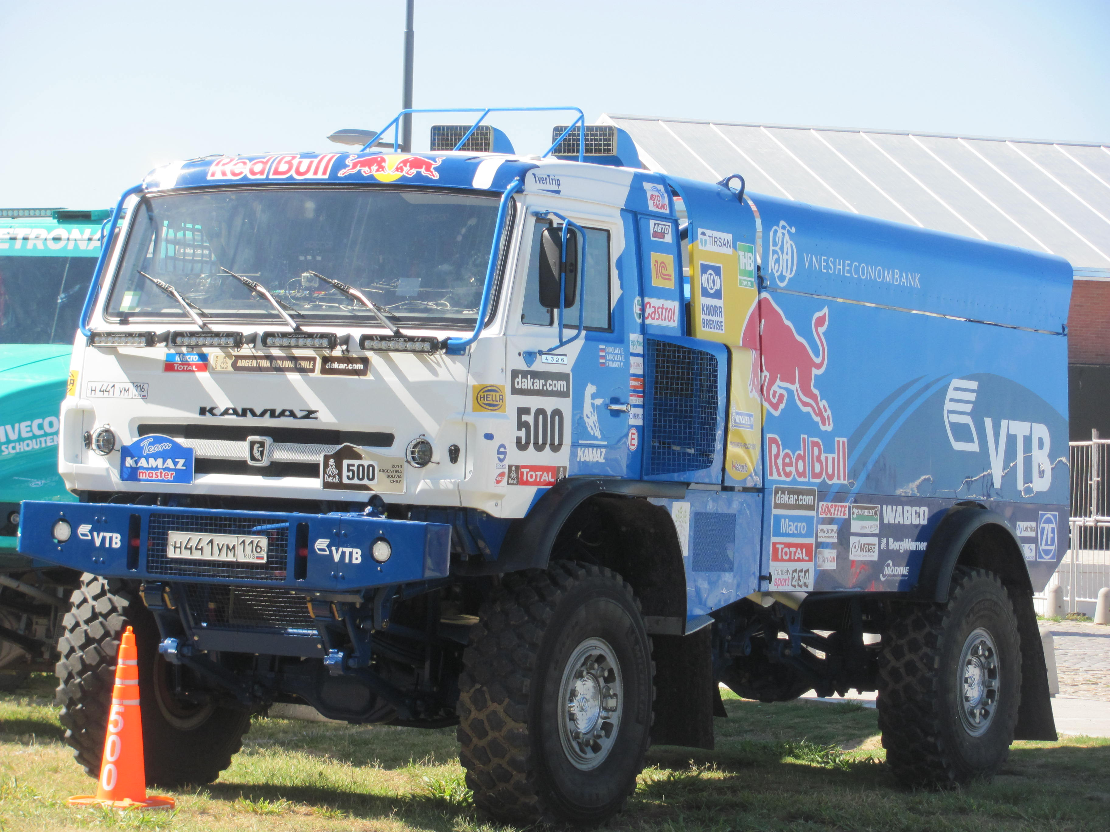 2014 Dakar Rally trucks before the start of the event